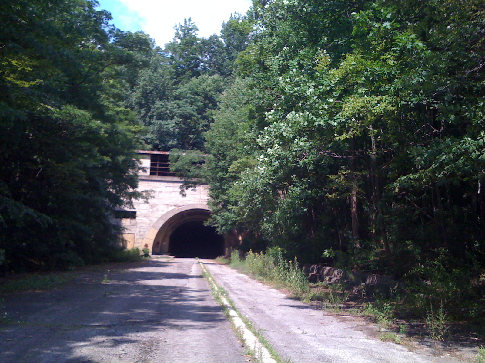 Took image myself on 08/03/2009. Also took 2006 image of Sideling Hill Tunnel.